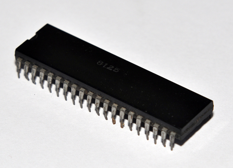 Uncommited Logic Array from a Sinclair ZX81 personal computer